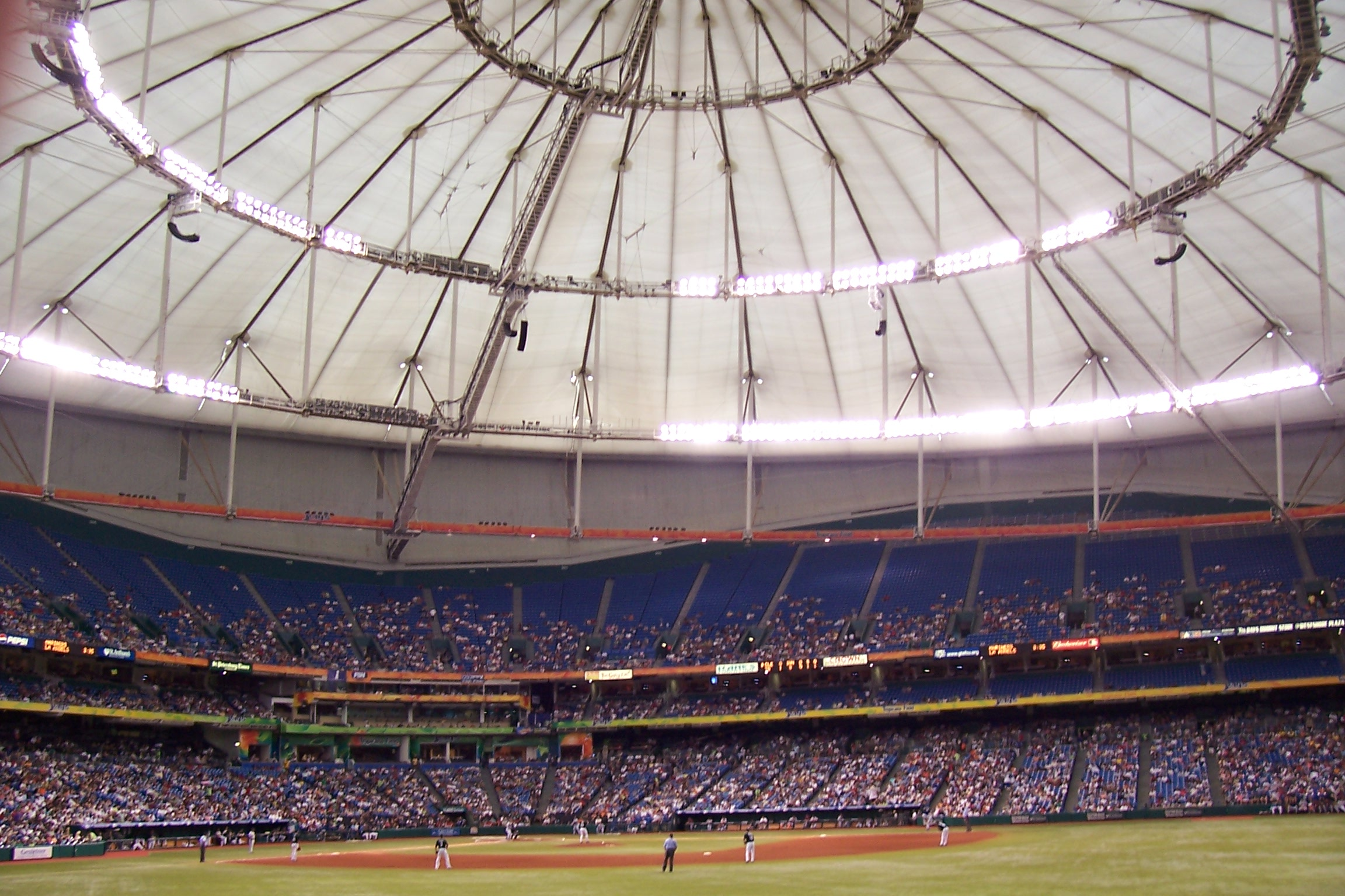 02:35, 18 September 2006 . . Wknight94 . . 2304×1536 (784,517 bytes) (Picture of Tropicana Field taken by me during August 20, 2006 game.)